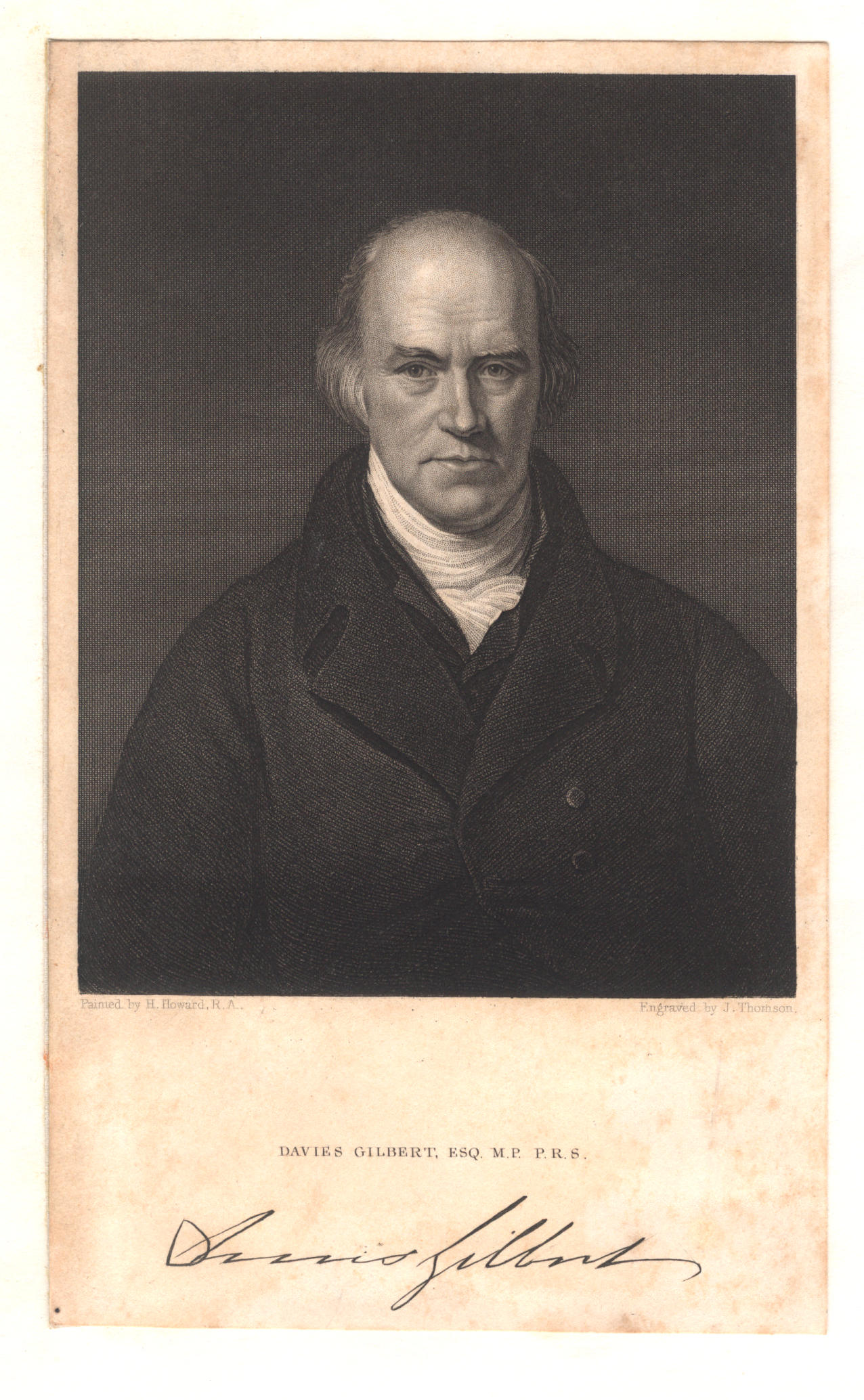 Engraving of Davies Gilbert